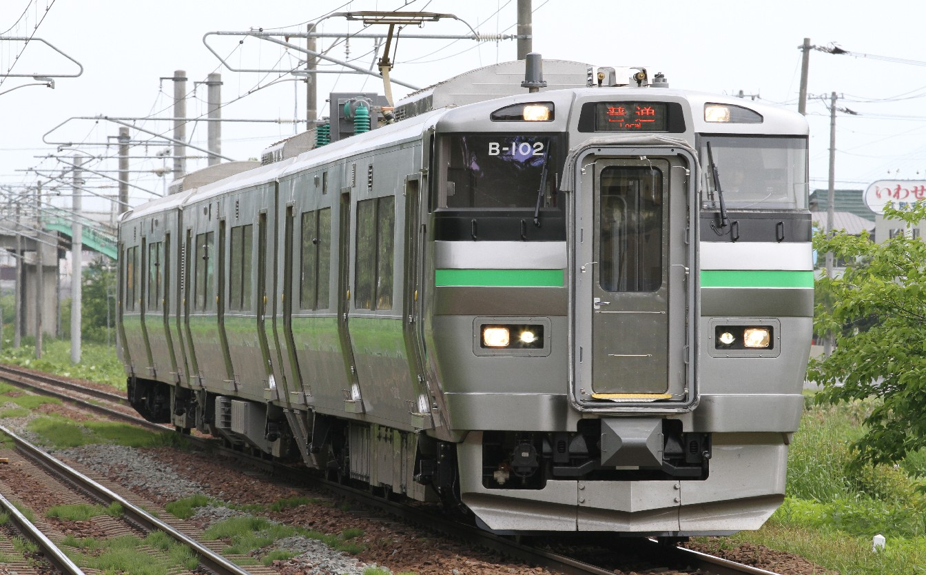 JR Hokkaido 733 series EMU set B-102 on a local service between Ebetsu and Takasago on the Hakodate Main Line